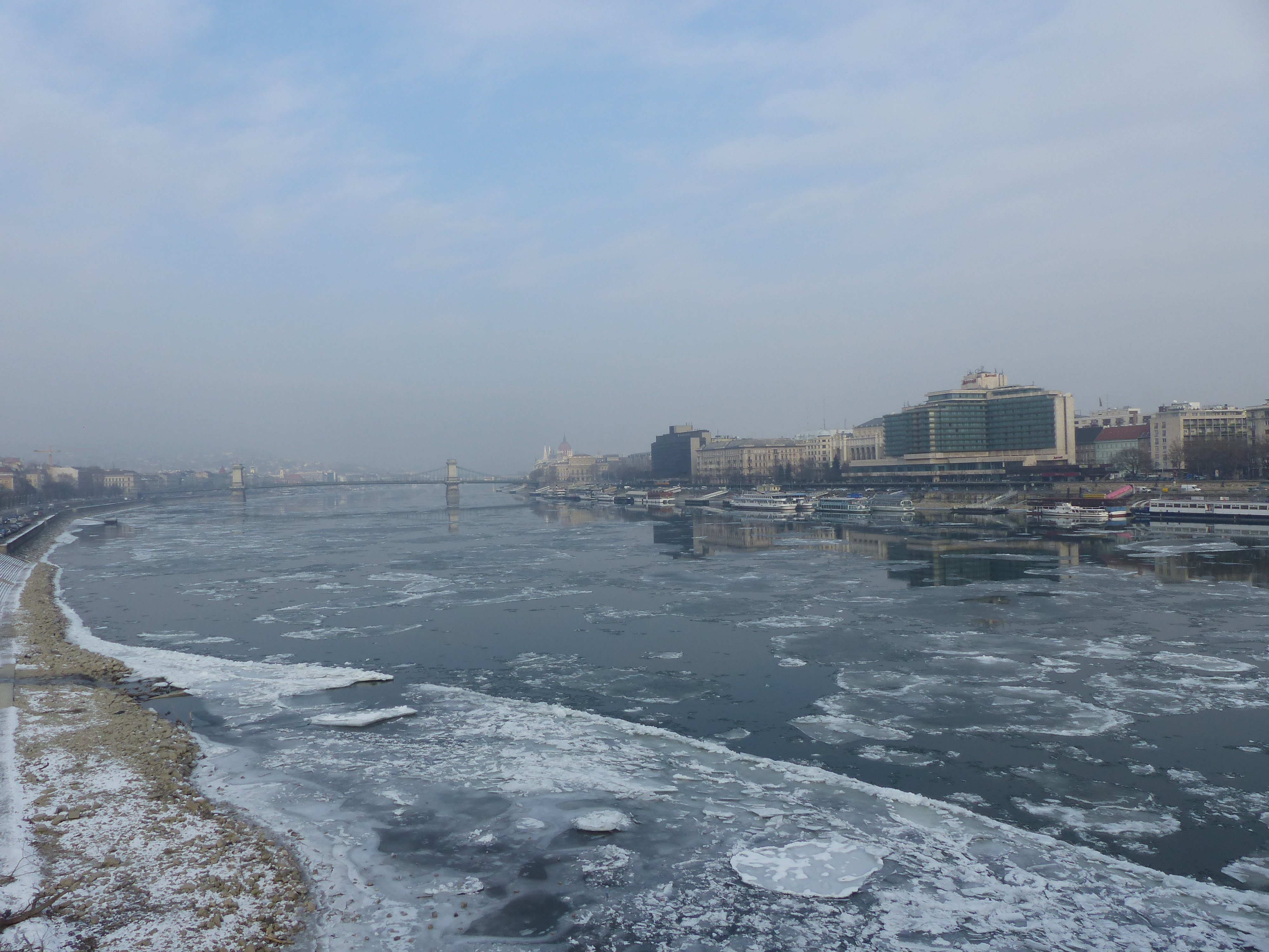 Camera captures Lánchíd and moving drift ice. Hazy Lánchíd (Chain bridge), Danube embankment view by snow can be seen behind.